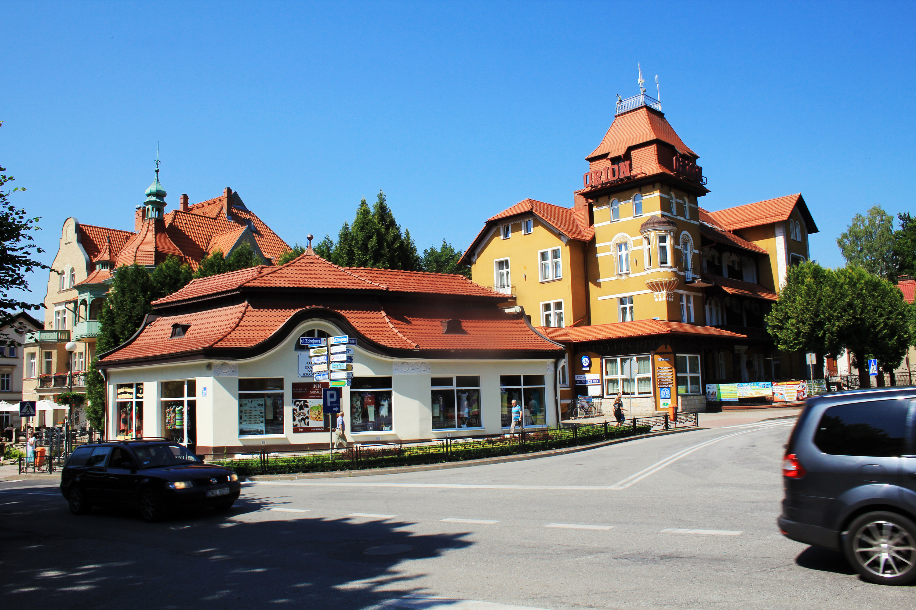 Hotel Orion in spa Kudowa-Zdrój, south Poland